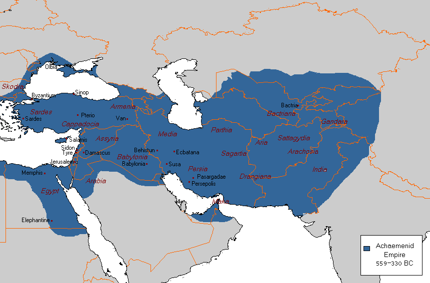 Map showing extent of Achaemenid Empire 559 - 330 (BC)